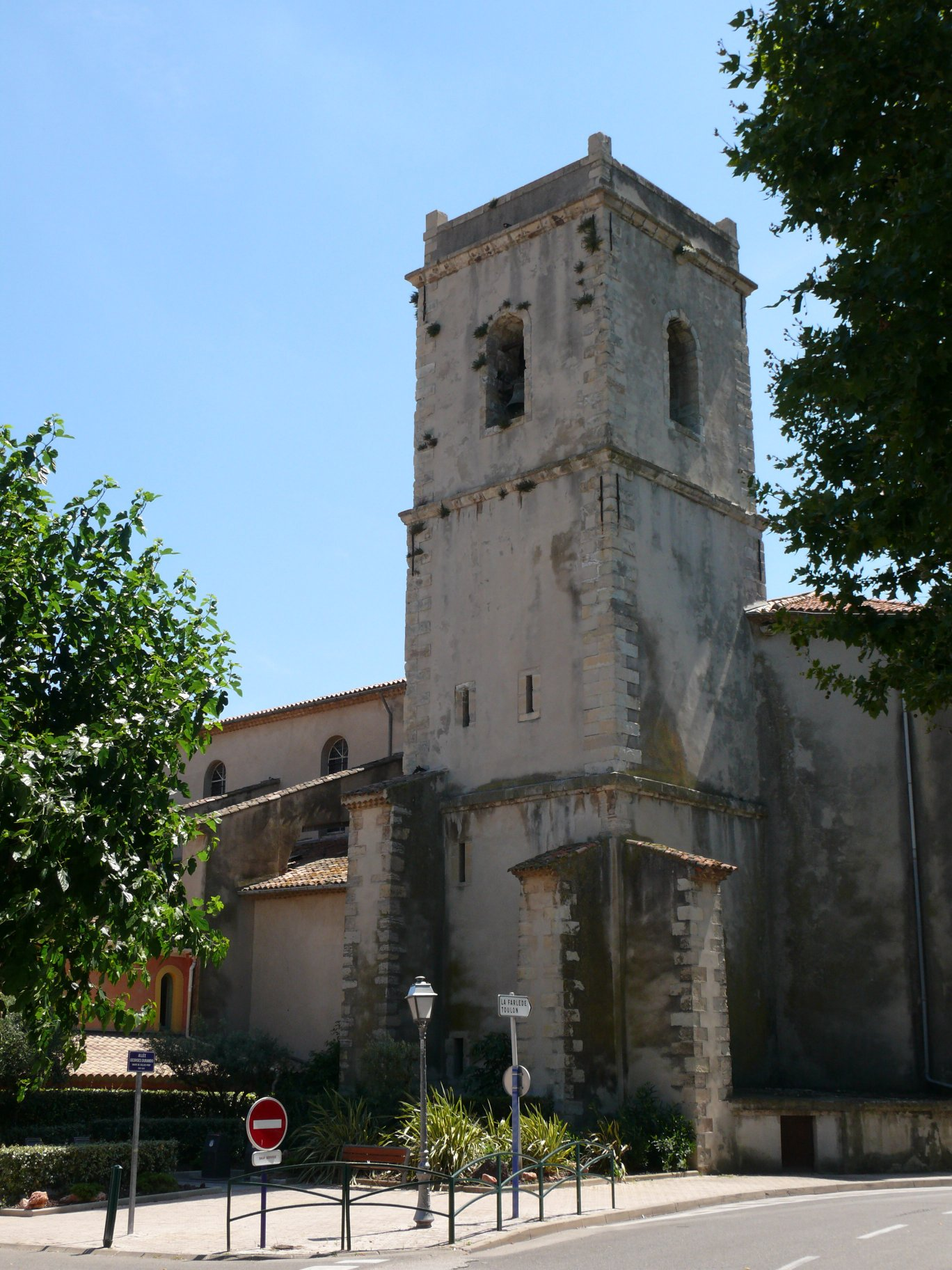 Saint-John-the-Baptist's church of Solliès-Pont (Var, Provence-Alpes-Côte-d'Azur, France).